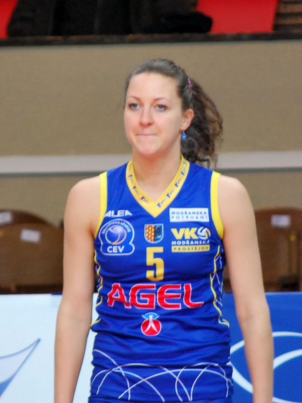 Šárka Kubínová, volleyball player from the Czech Republic